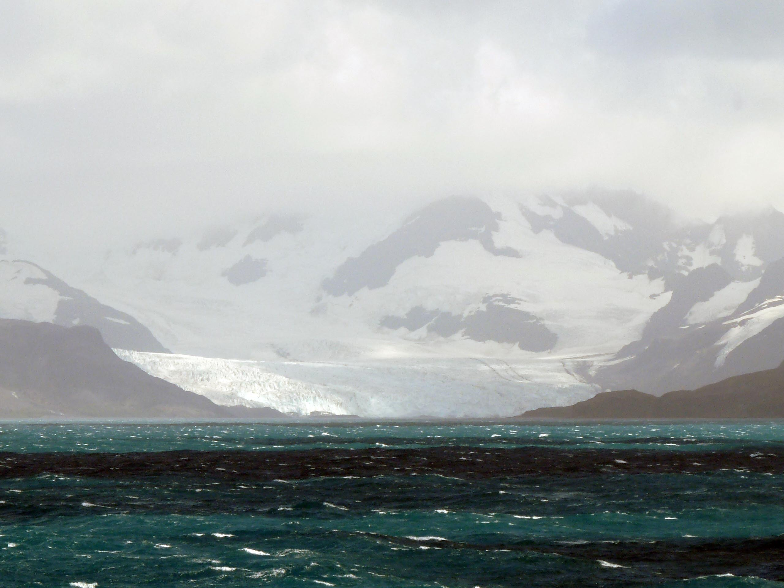 Antarctic Bay is a bay 1 mile (1.6 km) wide which recedes southwest 4 miles (6 km), entered between Antarctic Point and Morse Point on the north coast of South Georgia.